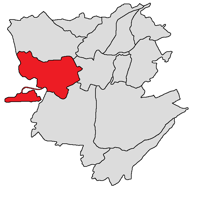 Location of Malatia-Sebastia district of Yerevan